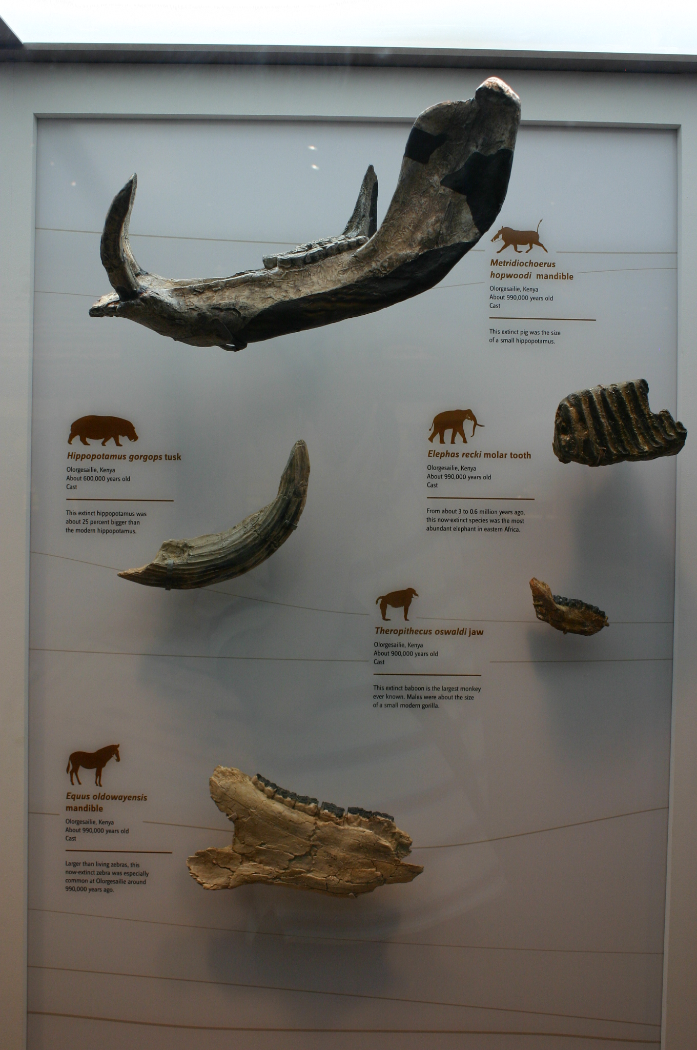 Taken at the David H. Koch Hall of Human Origins at the Smithsonian Natural History Museum.